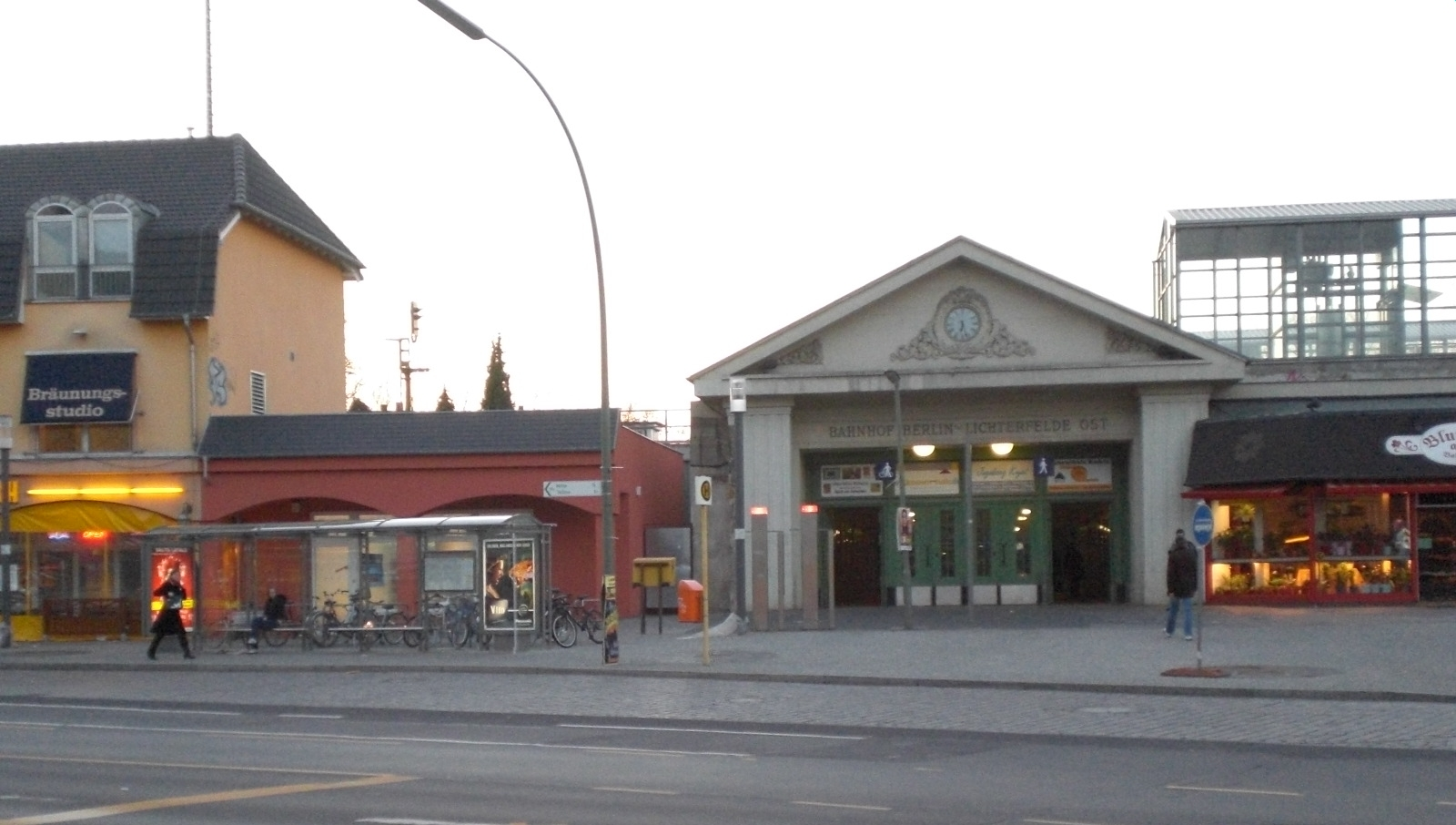 Commuter railway and regional station Berlin Lichterfelde-Ost, southern entrance, above: the stairway up to the platform for regional trains.